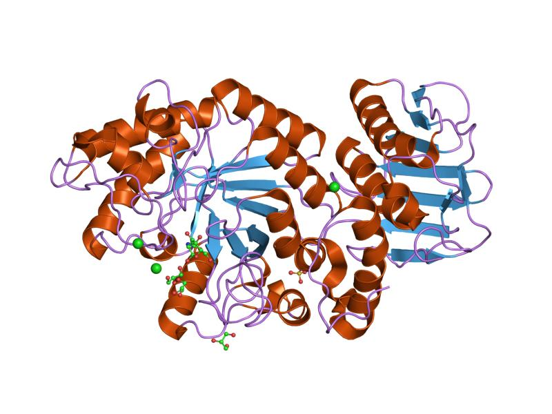 Cartoon representation of the molecular structure of protein registered with 1m01 code.